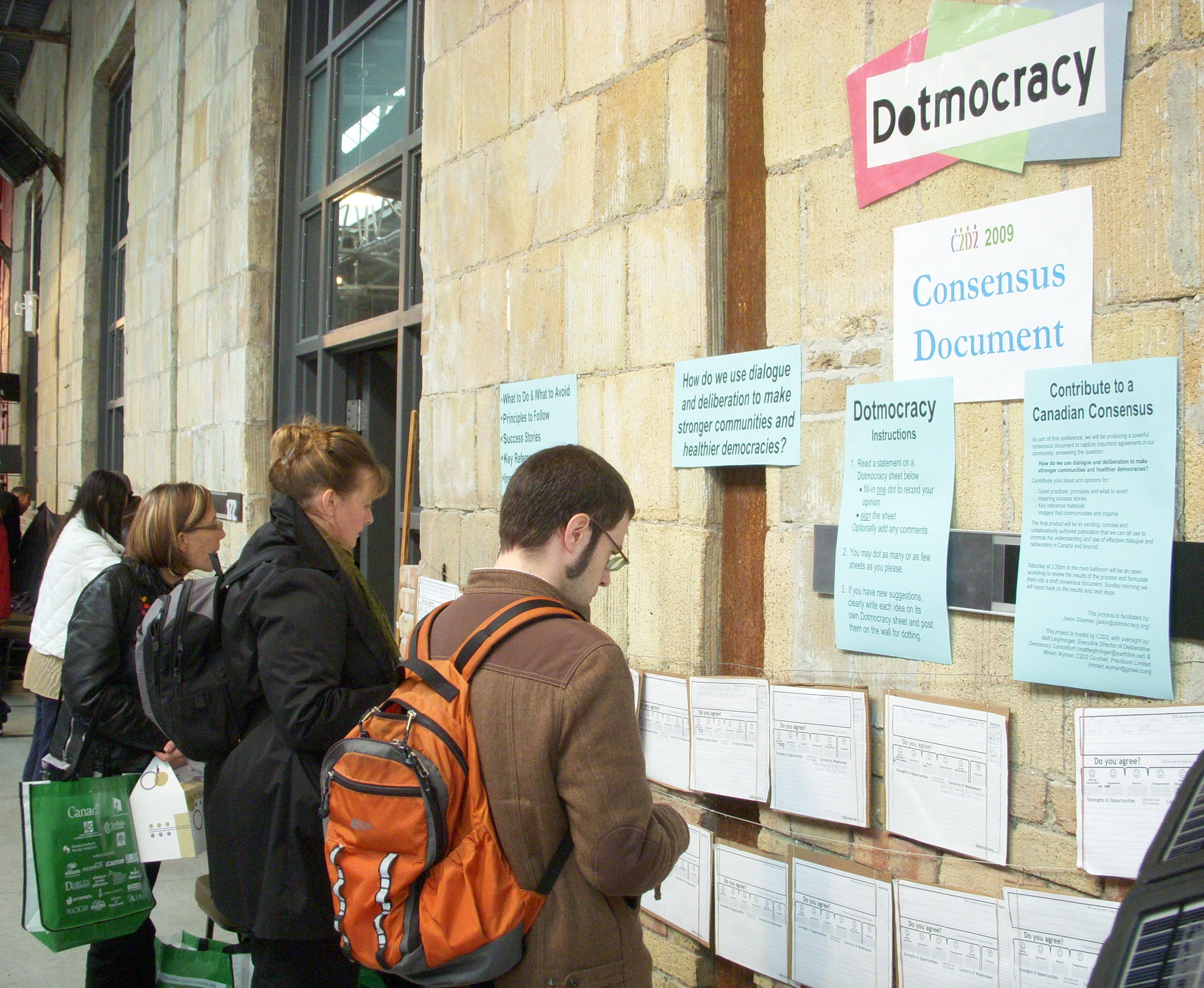 Participants at a conference contribute to the Dotmocracy wall.